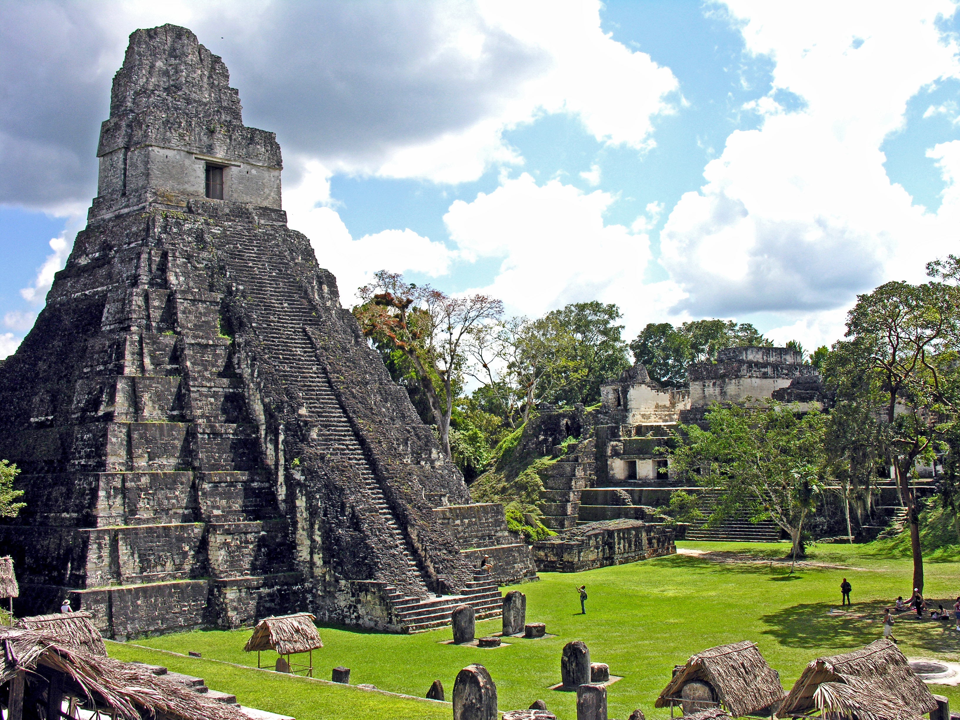 Looking at Temple 1 with the Central Acropolis buildings in back. Tikal, Guatemala Temple I, (Temple of the Great Jaguar) closes the Great Plaza on the east, the temple is 148 feet high (45 m.), and was built around 700 A.D. Tikal, Guatemala